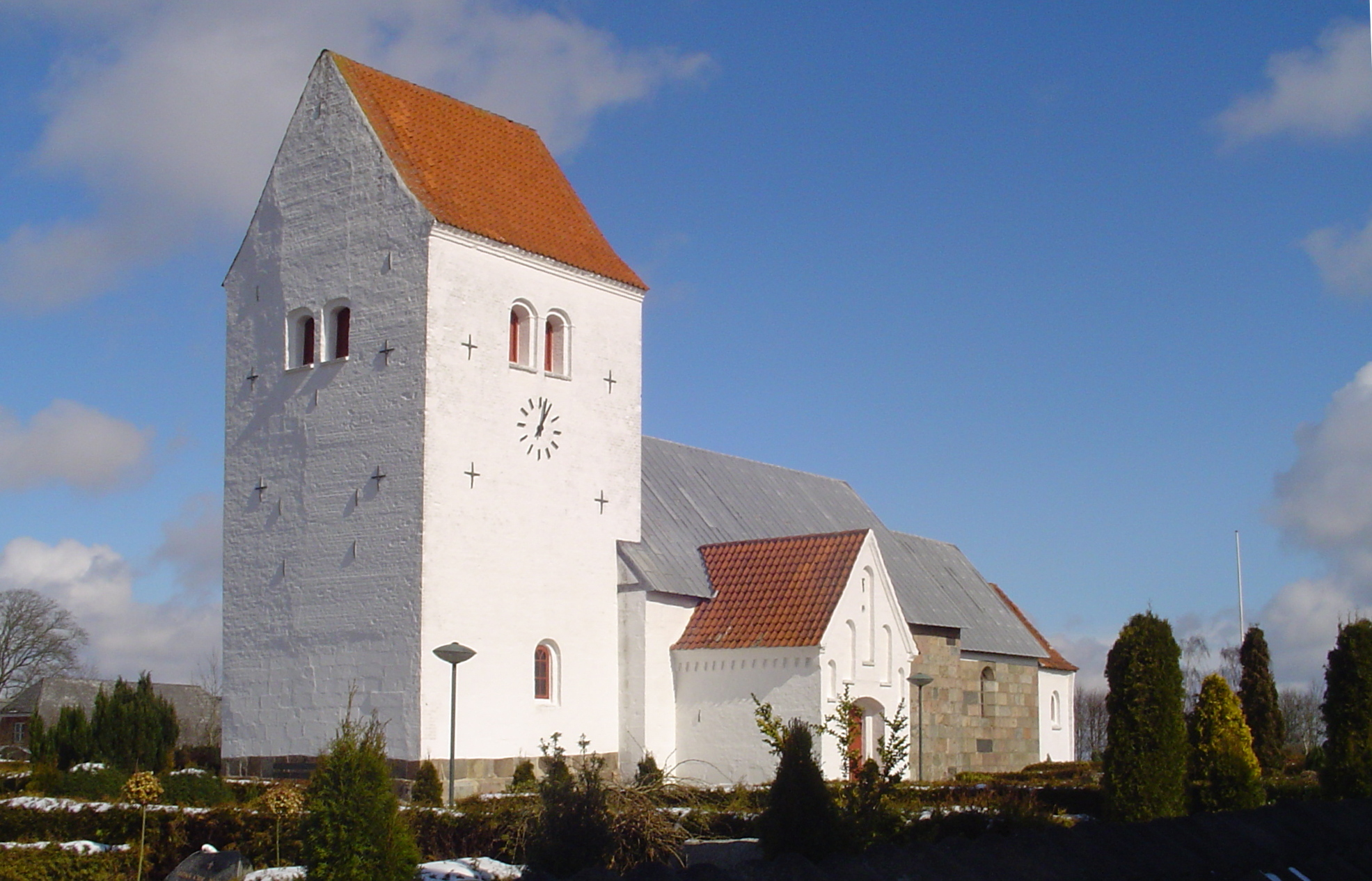 Ørum Sønderlyng, kirken fra sydvest (the church from south-west)